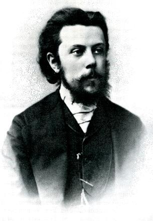 Modest Mussorgsky, 1865